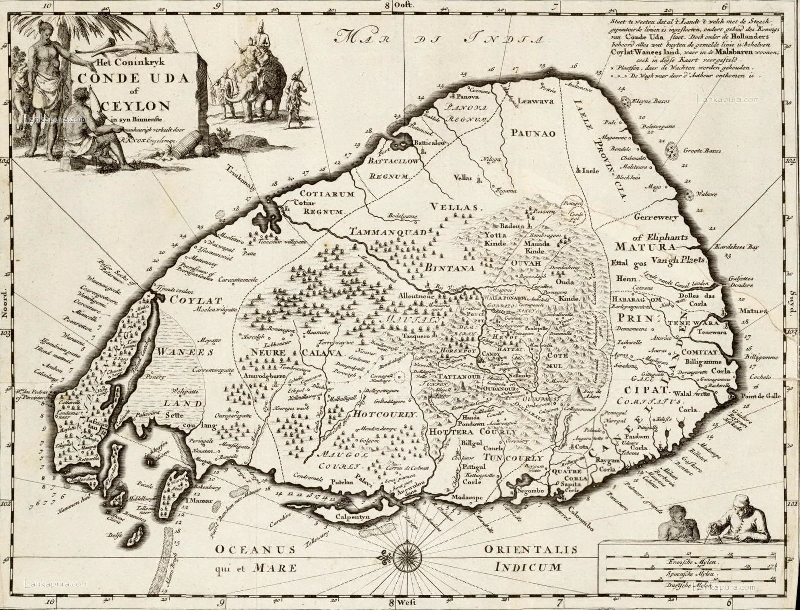 "Coylat Wanees Country", an engraving of Sri Lanka, as drawn in Robert Knox's 1681 map, published in London in his book An Historical Relation of the Island Ceylon. Engraving published by Wilhem Broedelet in 1692.